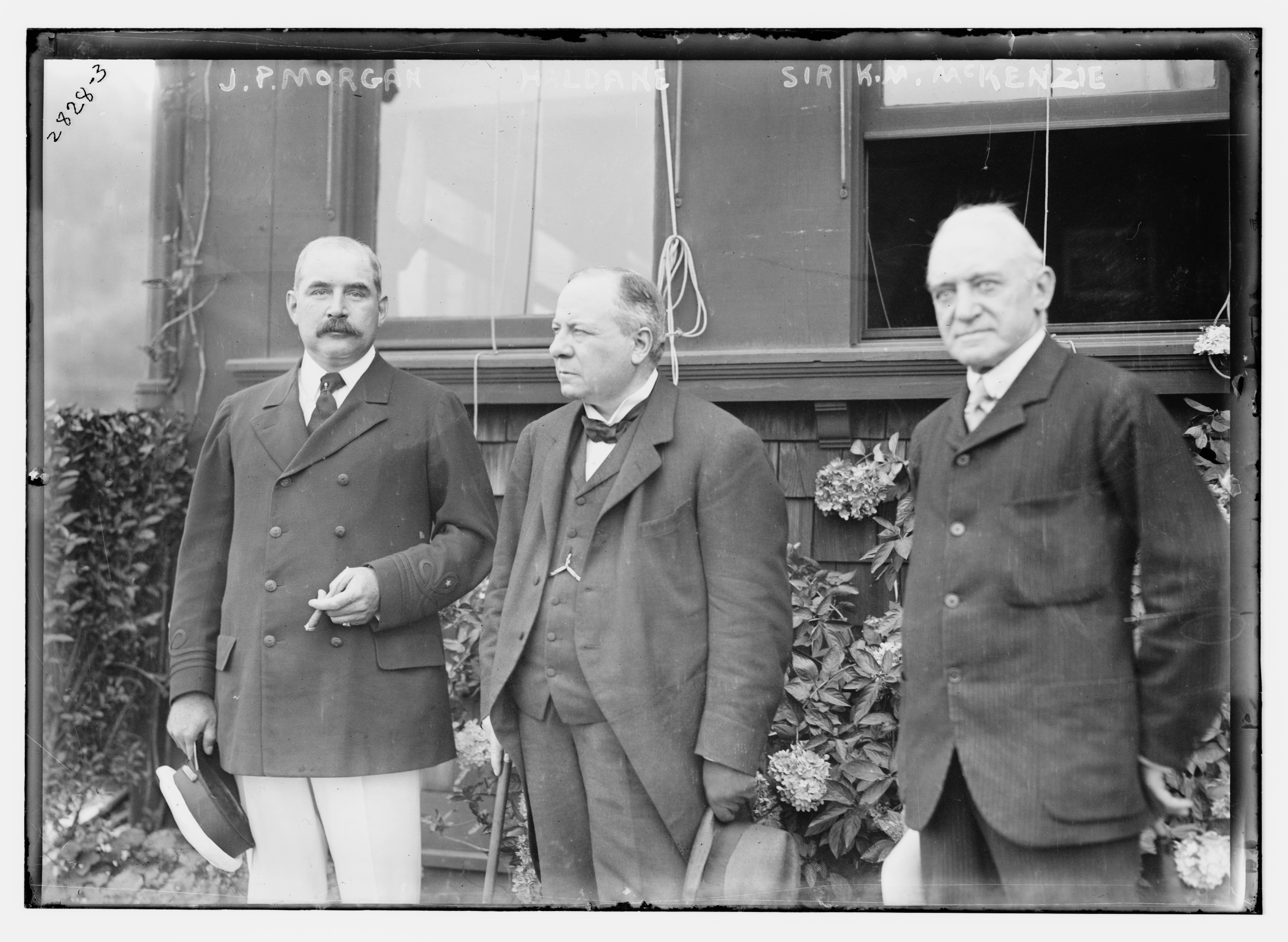 Title: J.P. Morgan - Haldane - Sir K. M. McKenzie Abstract/medium: 1 negative : glass ; 5 x 7 in. or smaller.